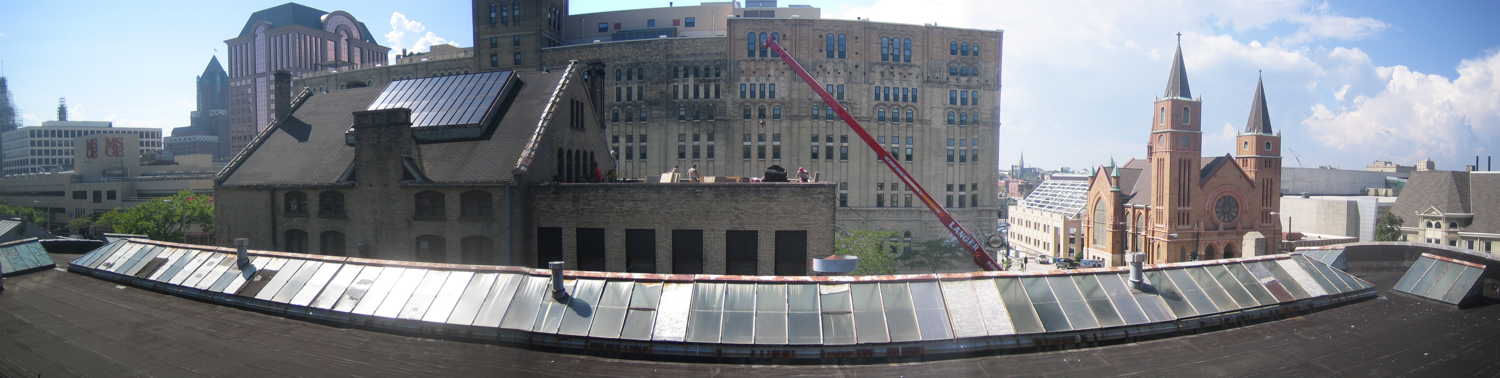 An auto-stitched image of the view out of my room at the Milwaukee School of Engineering. The former Blatz is straight out the window. The Milwaukee Center is down a couple of blocks. The MSOE Cudahy Student Center is in the shot too.